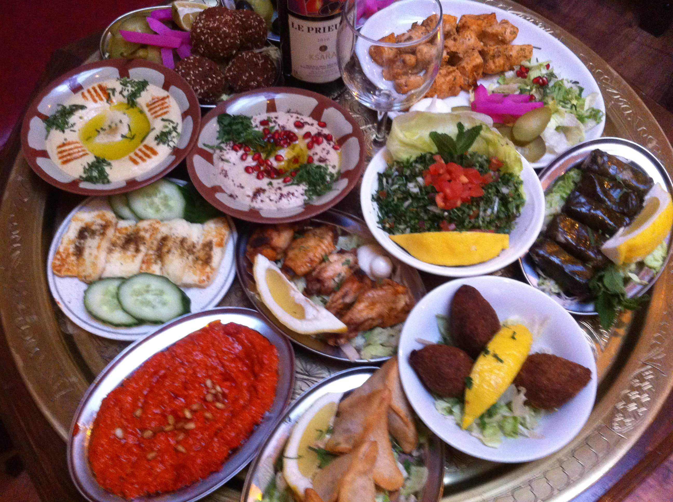 Selection os some Lebanese dishes, from Cafe Nouf Restaurant. 8 Lower Grosvenor Pl, London SW1W 0EN